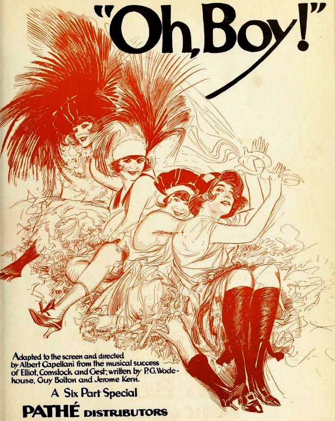 Advertisement for the American film Oh, Boy! (1919), which was based upon the 1917 Broadway musical of the same name, from the color inserts after page 1826 of the June 21, 1919 Moving Picture World.